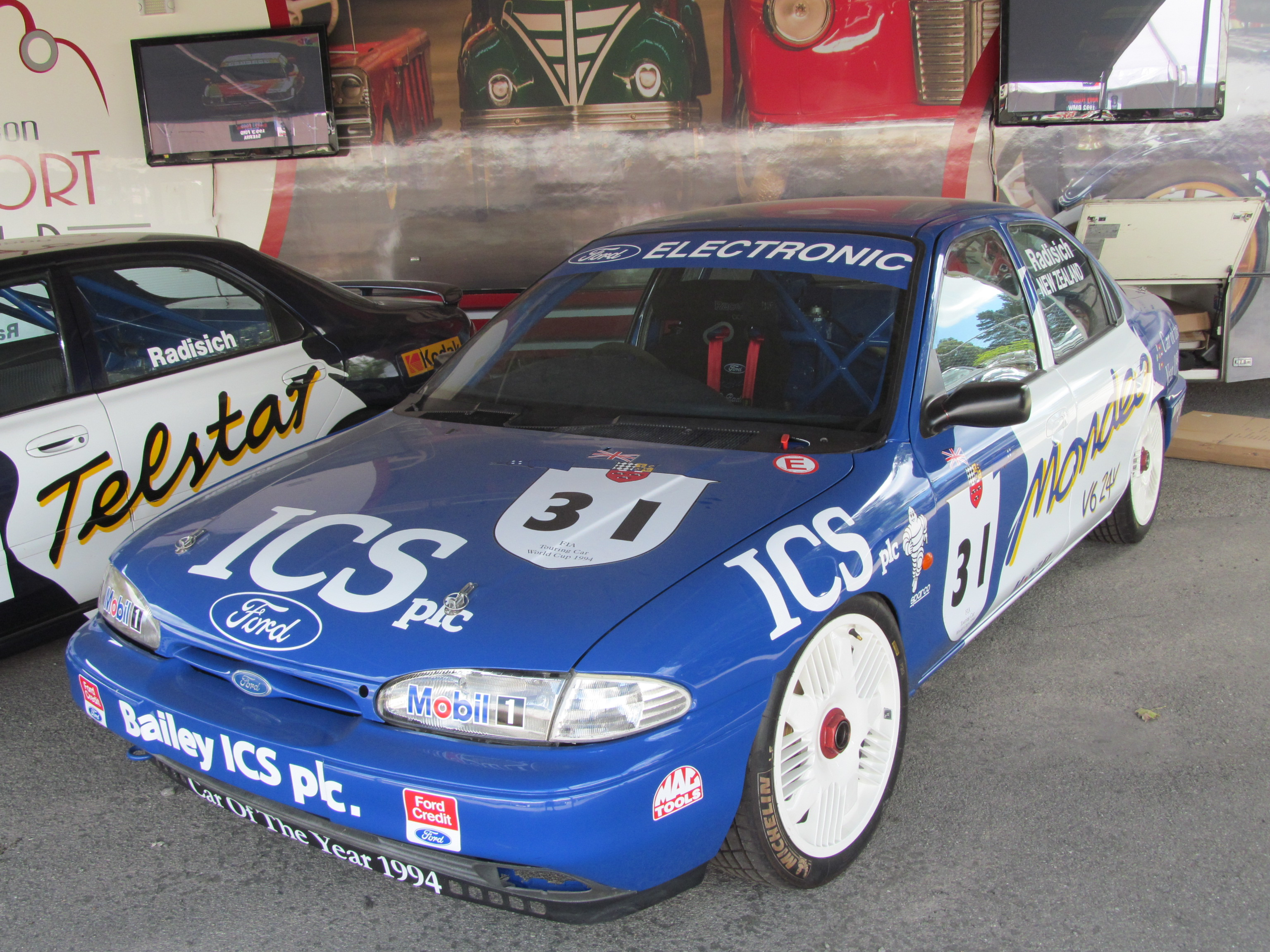 I literally couldn't believe my eyes seeing this, I've wanted to see a proper 90s BTCC car for so long and seeing it alongside a Telstar touring car made it all the better. Both were raced by NZ race driver Paul Radisich.